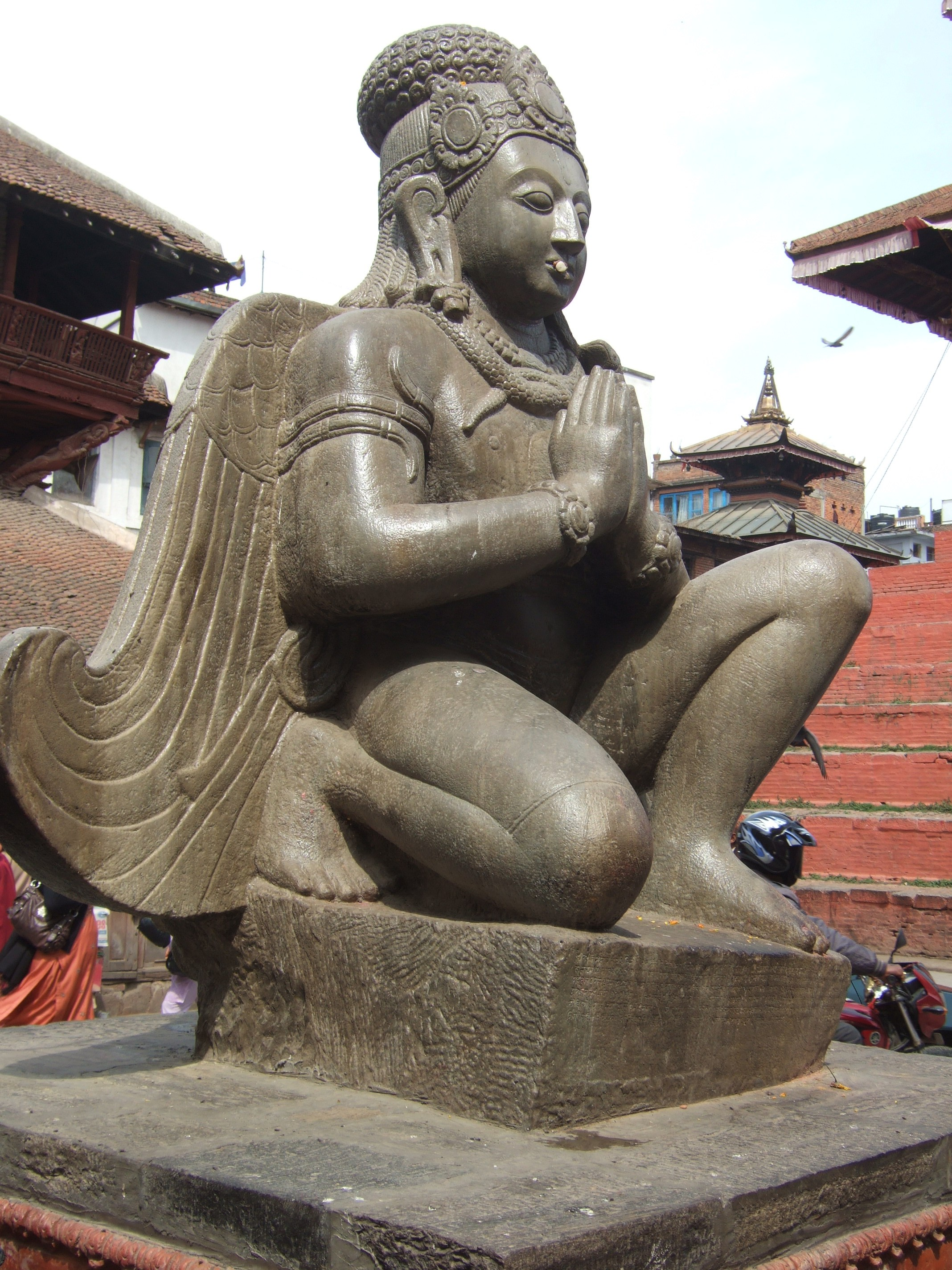 Stone statue of Garuda, Durbar Square, Kathmandu